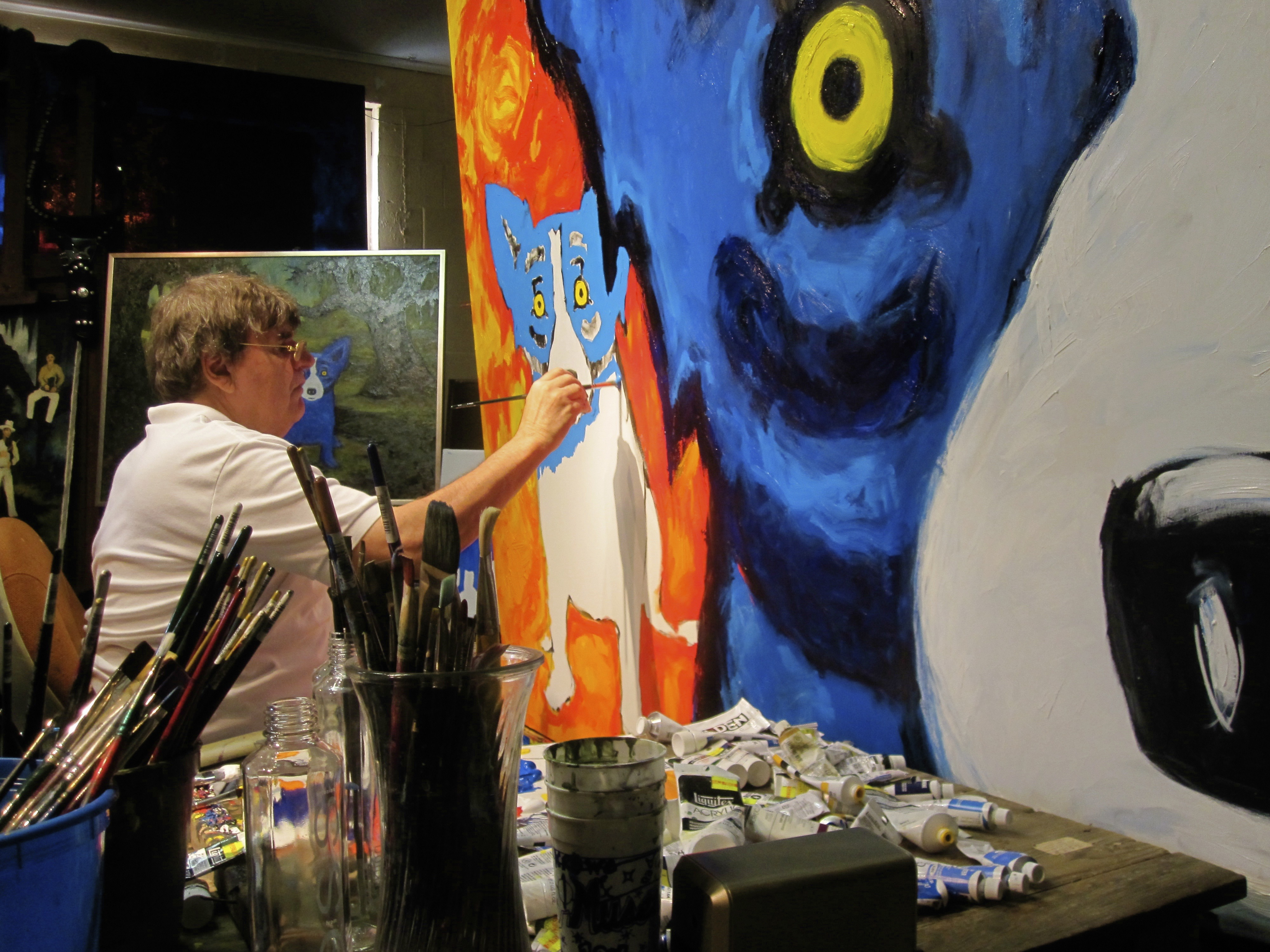 George Rodrigue paints in his studio circa 2009.